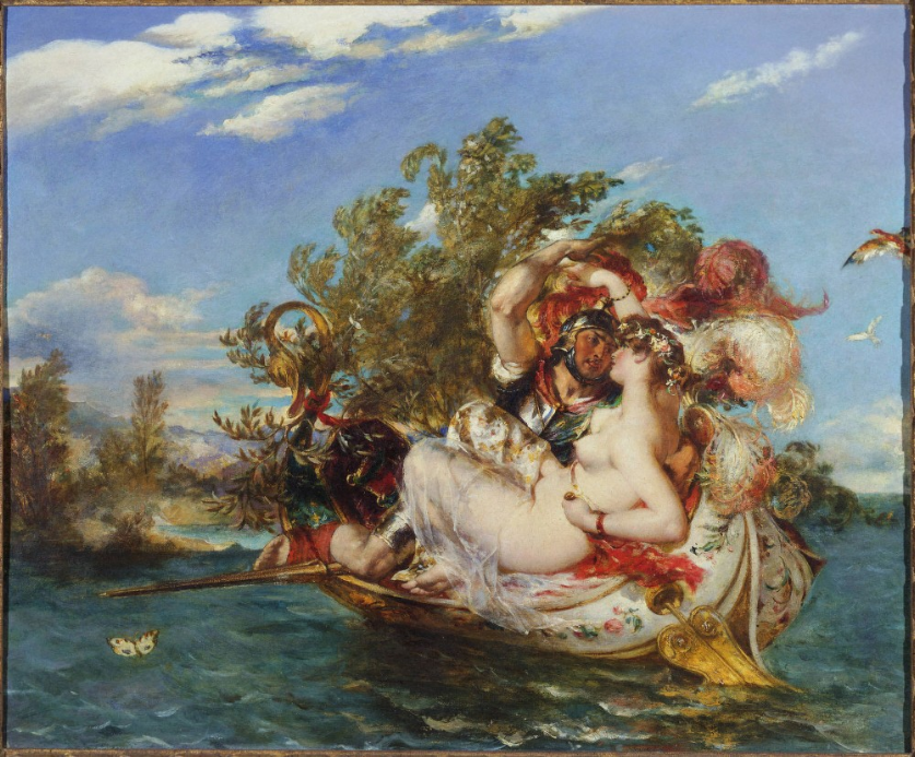 Phaedria and Cymochles on the Idle Lake